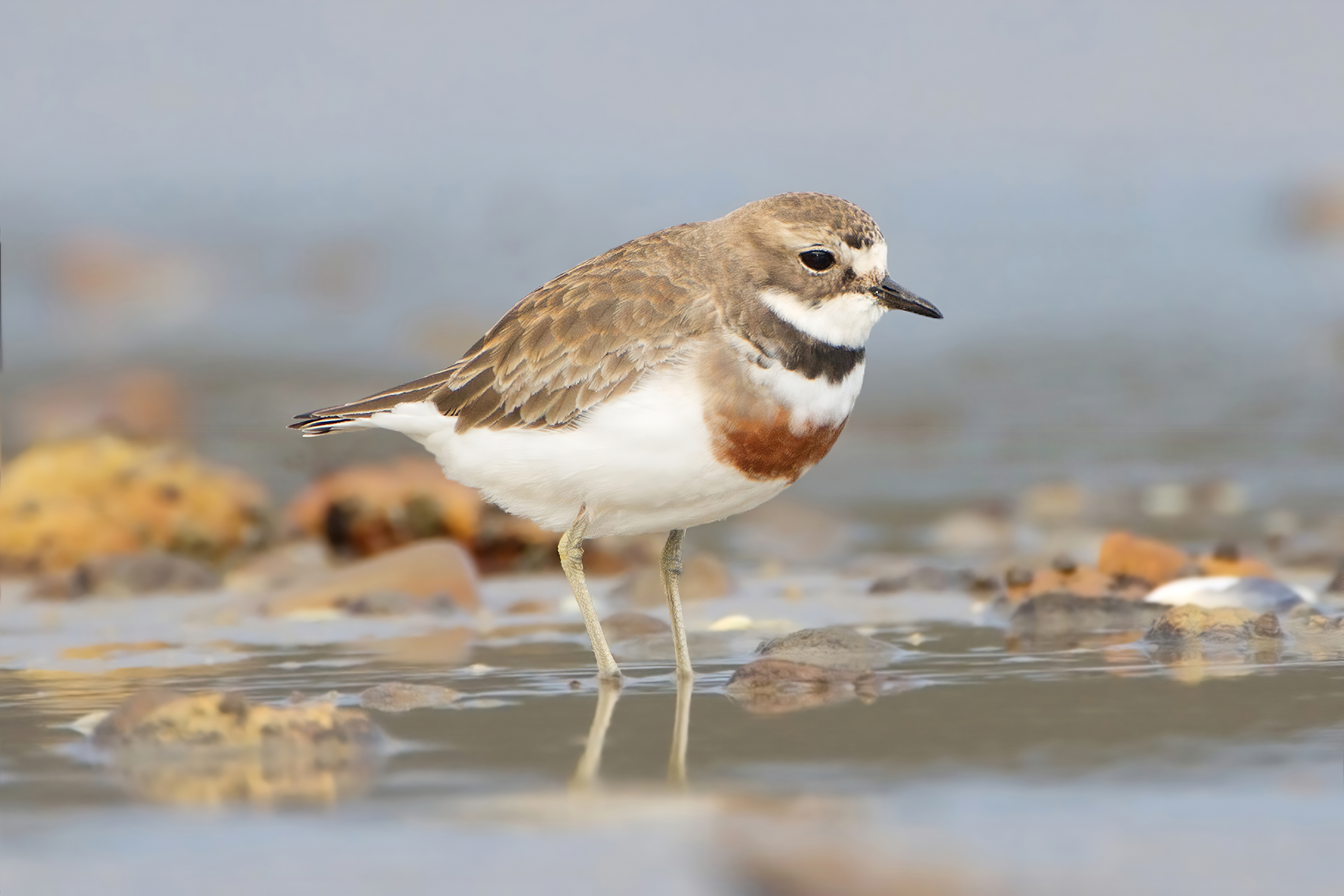 Double-banded Plover (Charadrius bicinctus) breeding plumage, Ralph's Bay, Lauderdale, Tasmania